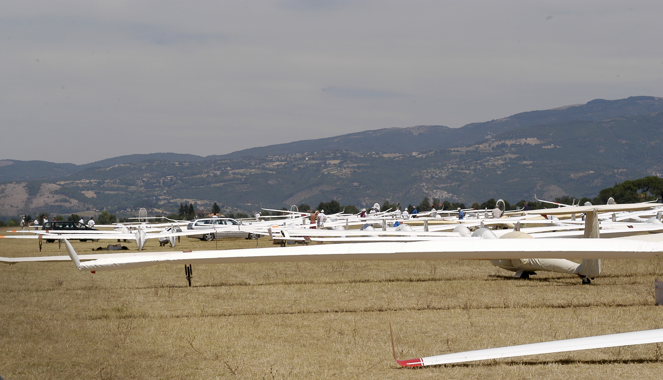 Rieti airport (italy) gliding race